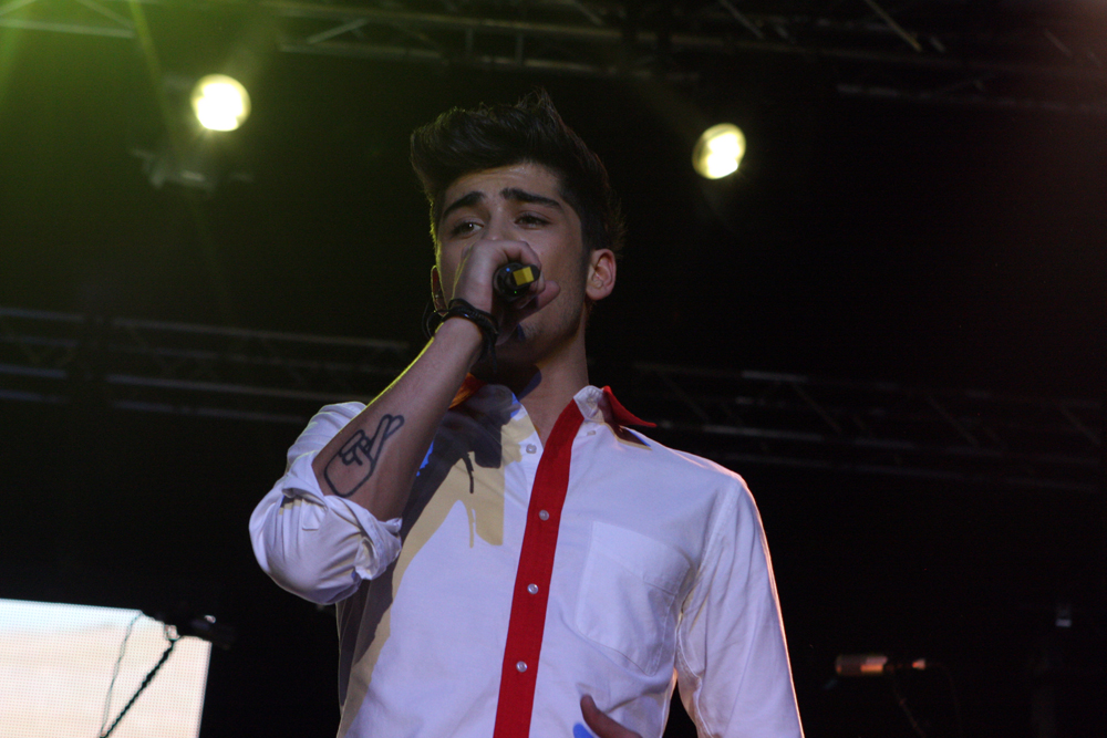 Zayn Malik at Hordern Pavilion, Moore Park, Sydney, Australia